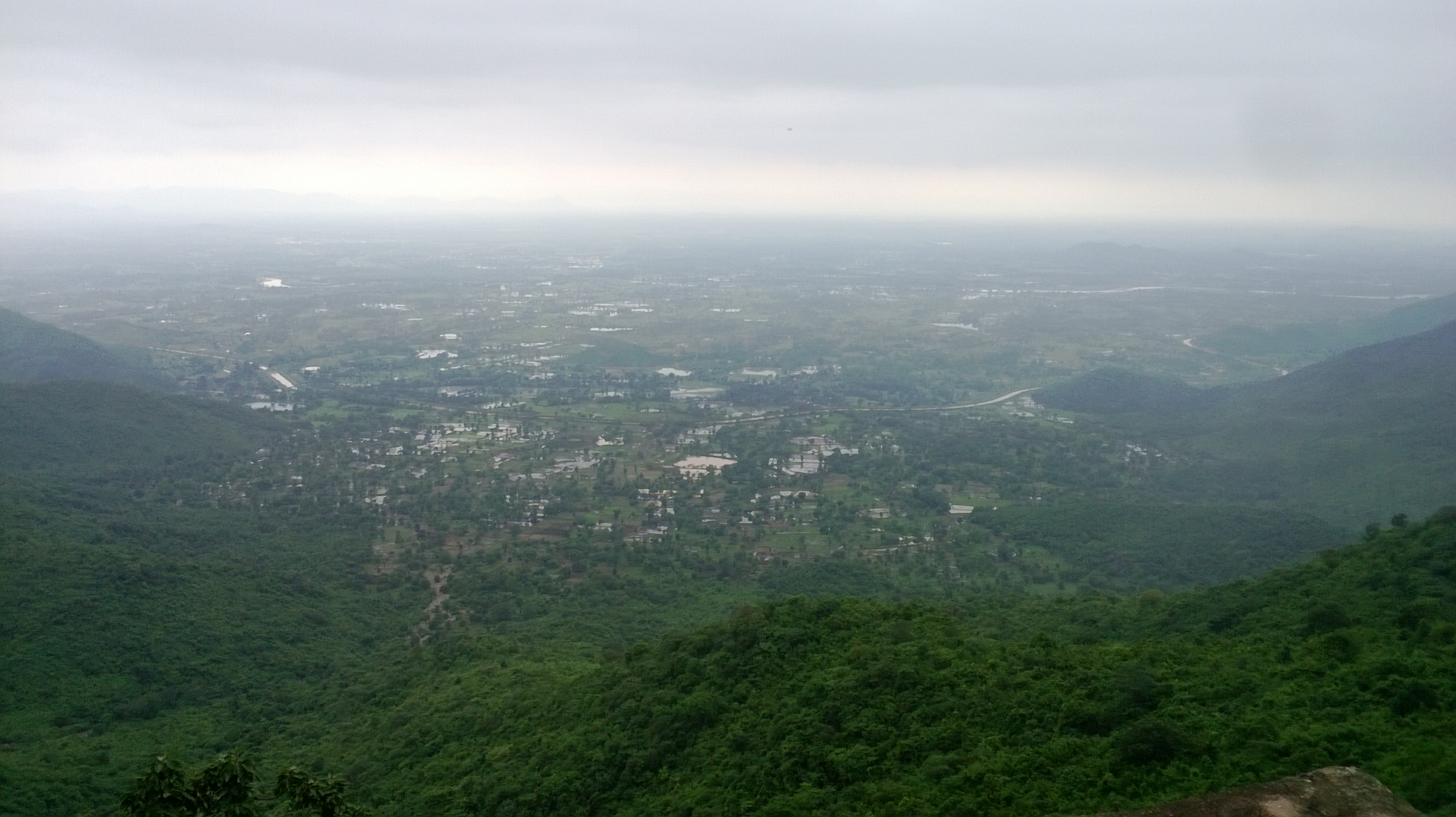 Hello Point near Th. Rampur Hello Point is a picnic spot and valley view point 75 km from Bhawanipatna. It is present on the top of the eastern ghats from where half of the Kalahandi district is visible including Junagarh, Kalampur block etc. One can receive signal from all telecom services for mobile, therefore it is named as Hello Point.